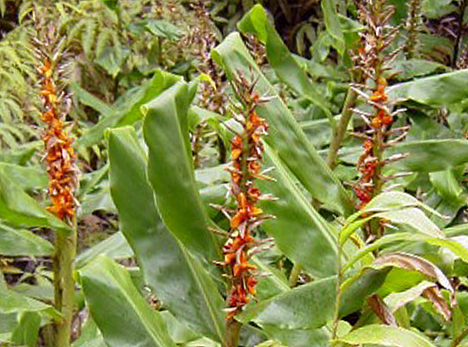 A Ginger Plant (Zingiber officinale). found on Hawaii big island.